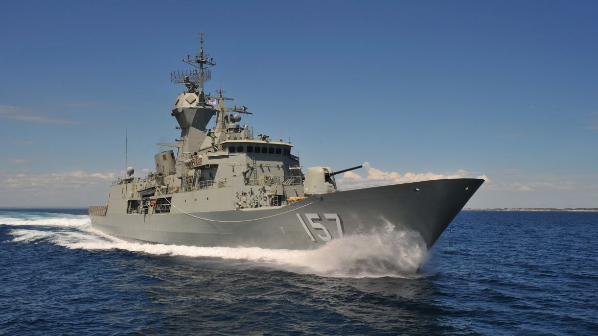 HMAS Perth at sea following her ANZAC Class Anti-Ship Missile Defence (ASMD) upgrade.